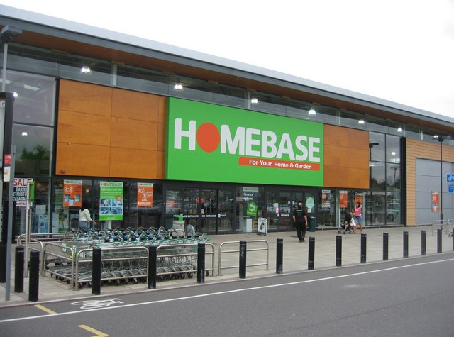 Homebase